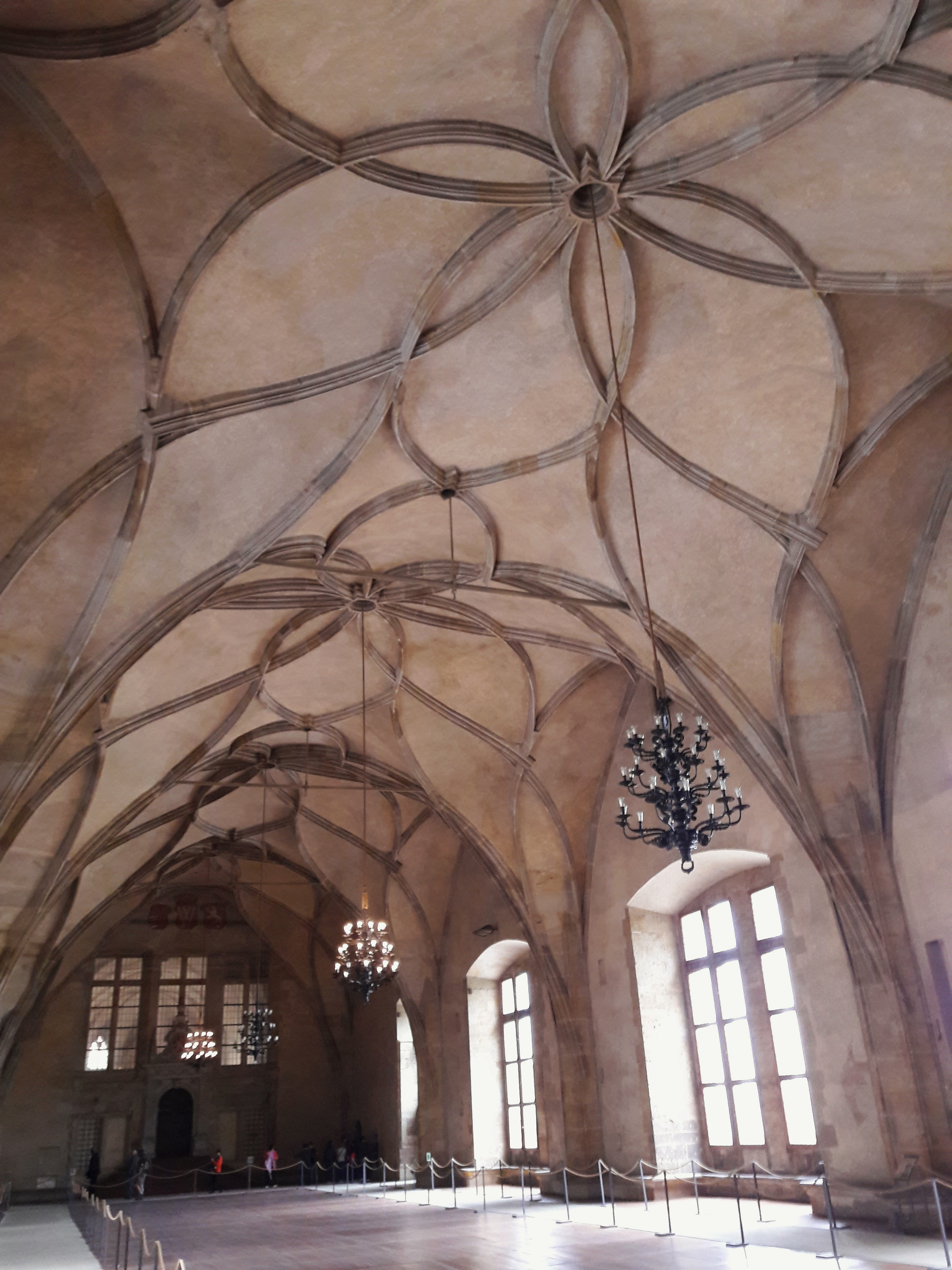 Vladislav Hall at the Prague Castle.label QS:Lde,"Der Wladislawsaal in der Prager Burg."label QS:Len,"Vladislav Hall at the Prague Castle."label QS:Lfr,"Salle Vladislav au château de Prague."label QS:Lpl,"Sala władysławowska na Zamku Praskim."